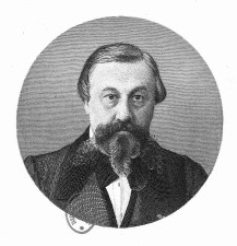 French writer and journalist Albéric Second (1817–1887)